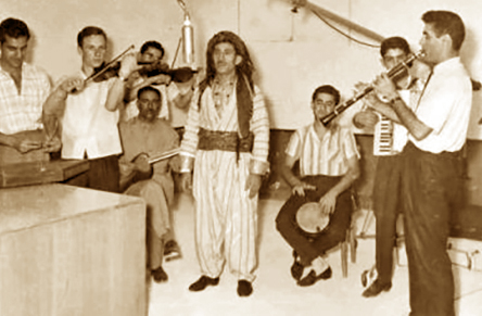 Hassan Zirak, Famous Kurdish folk Singer